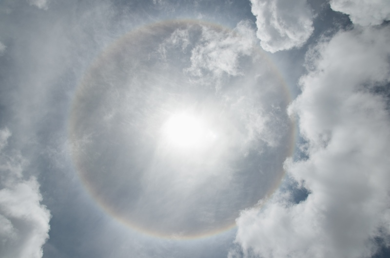 A 22-degree Solar halo observed on the Inca Trail in Peru.